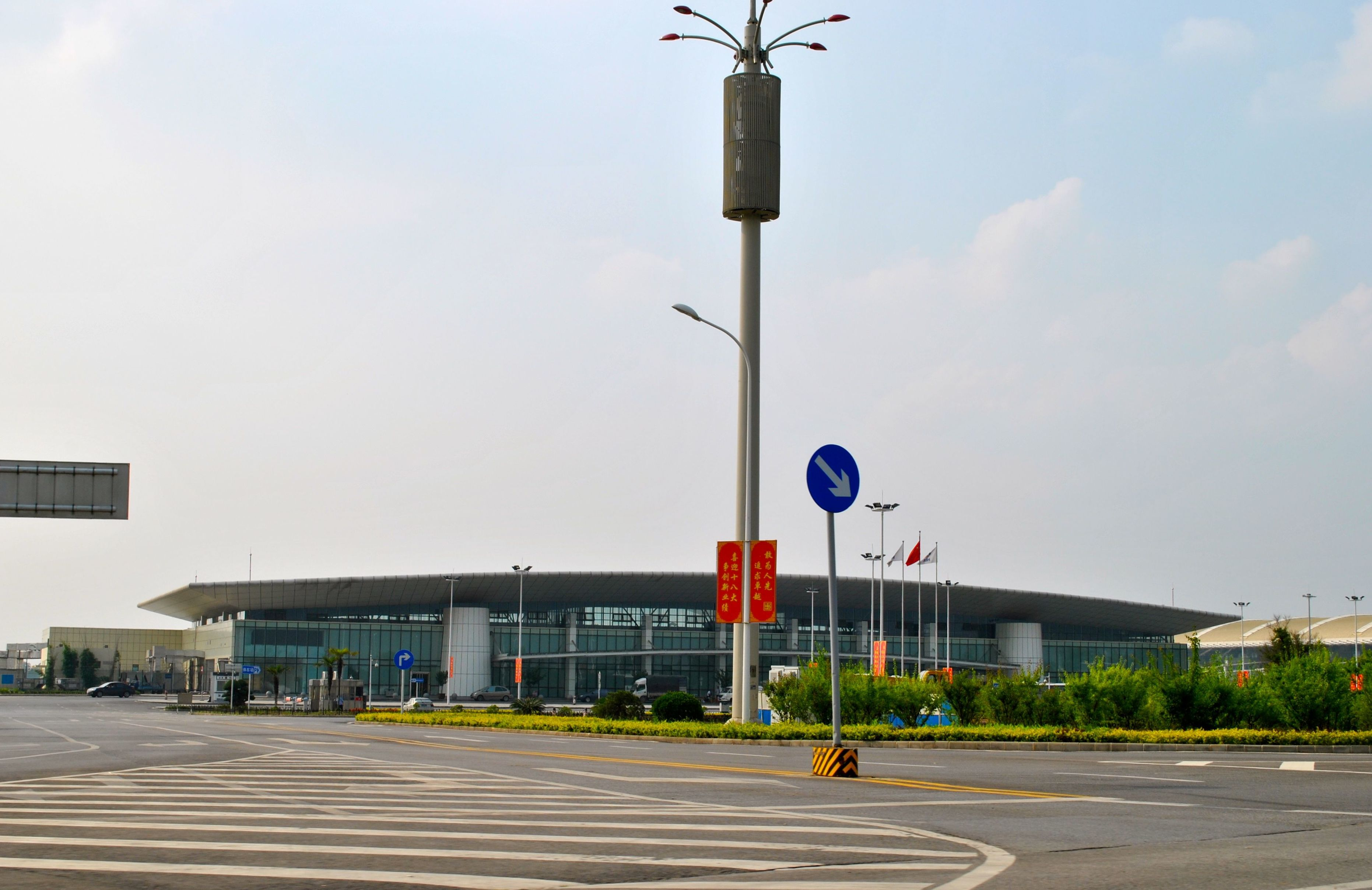 Wuhan Tianhe Airport International Terminal